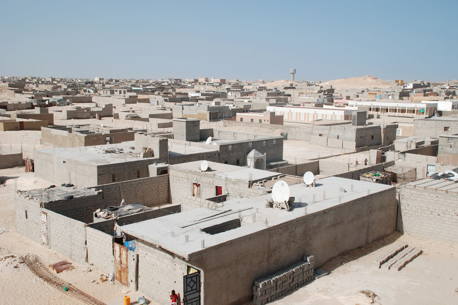 Numerowat, Nouadhibou, Mauritania